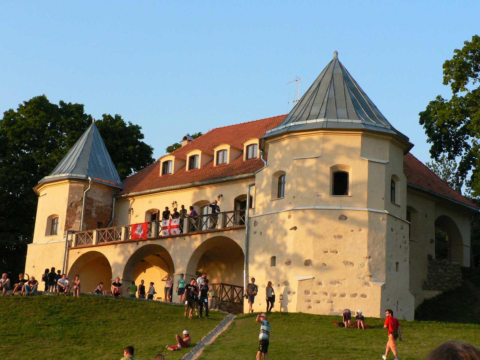 Norviliškės Castle during Be2gether festival, 2008